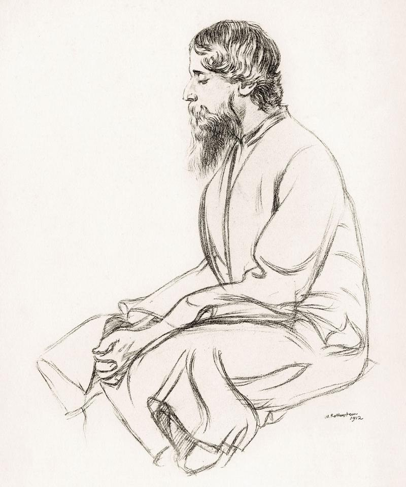 frontispiece of Gitanjali (1913 ed.) by Tagore, by William Rothenstein